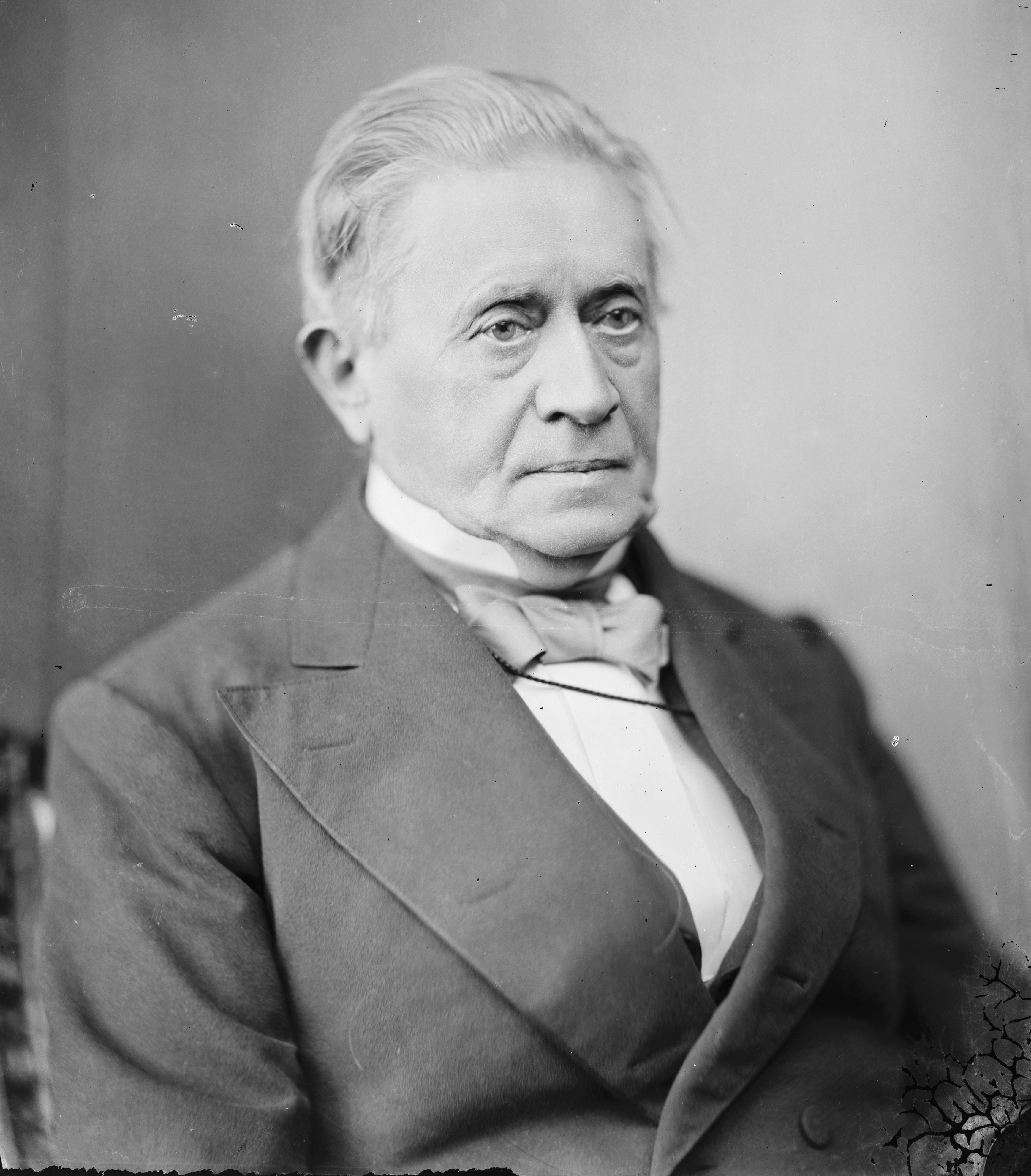 Joseph Henry. Library of Congress description: "Prof. Jos. Henry".